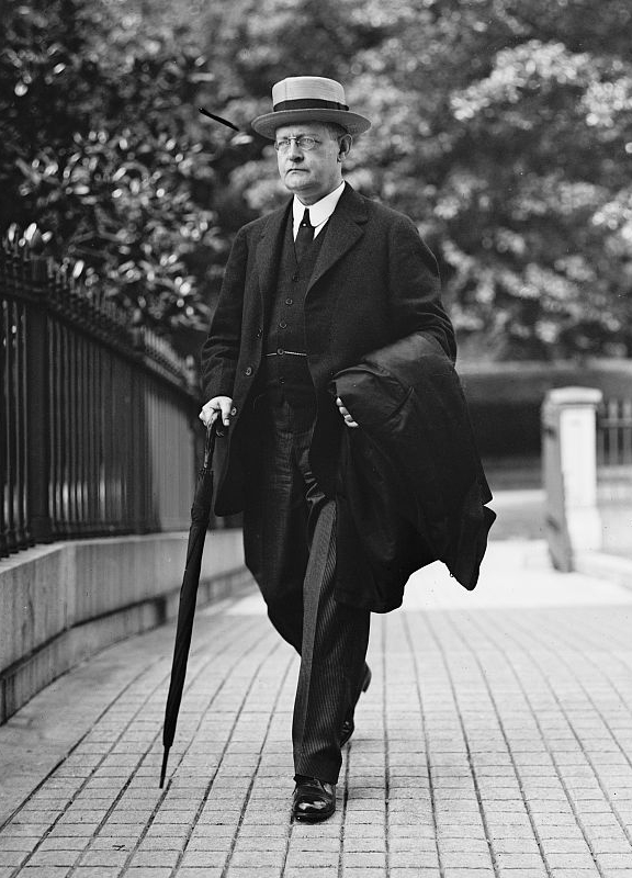 Charles Hamlin, the first chairman of the Federal Reserve. LOC has determined copyright has expired.[1]